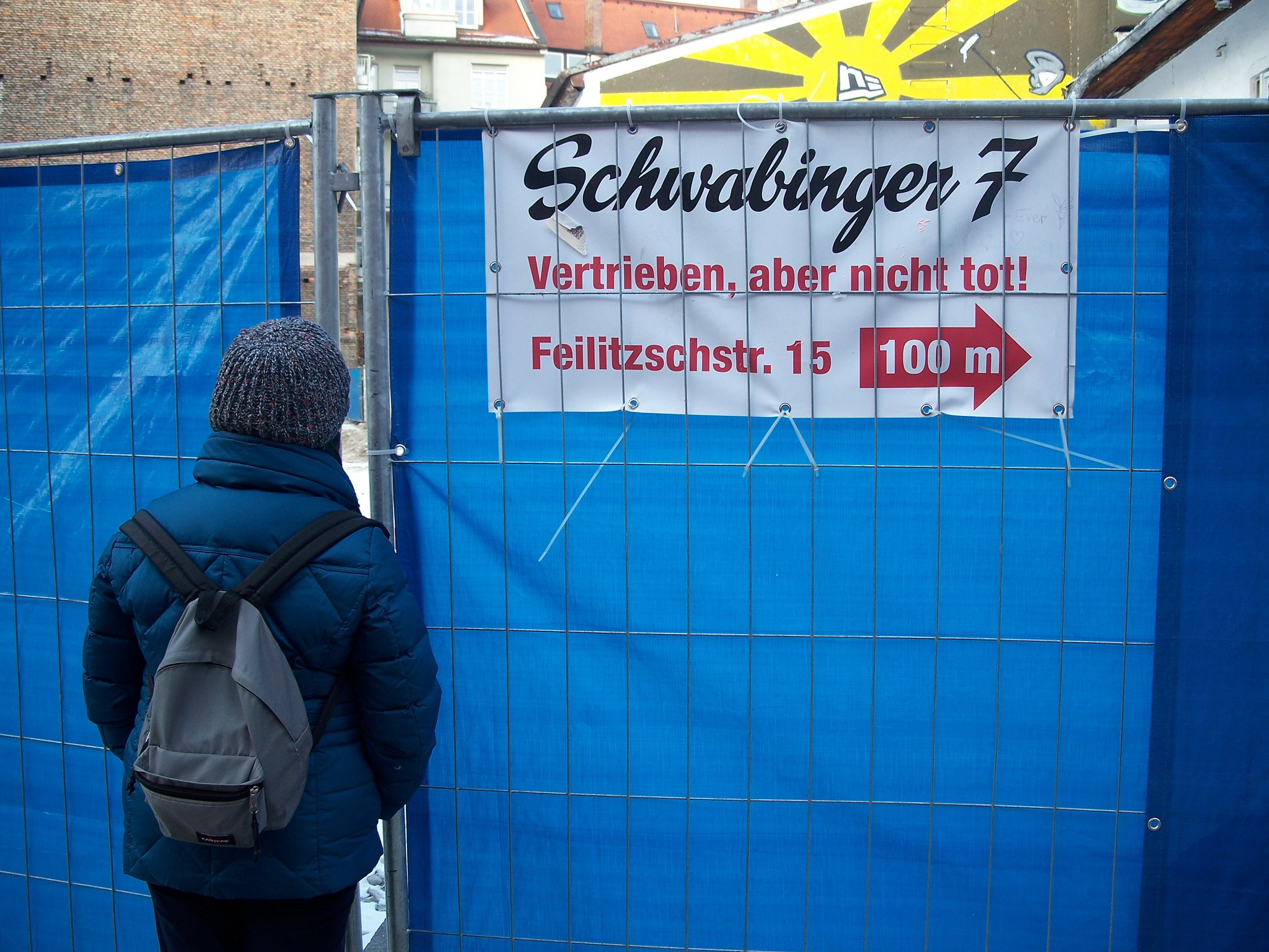 schwasi 7